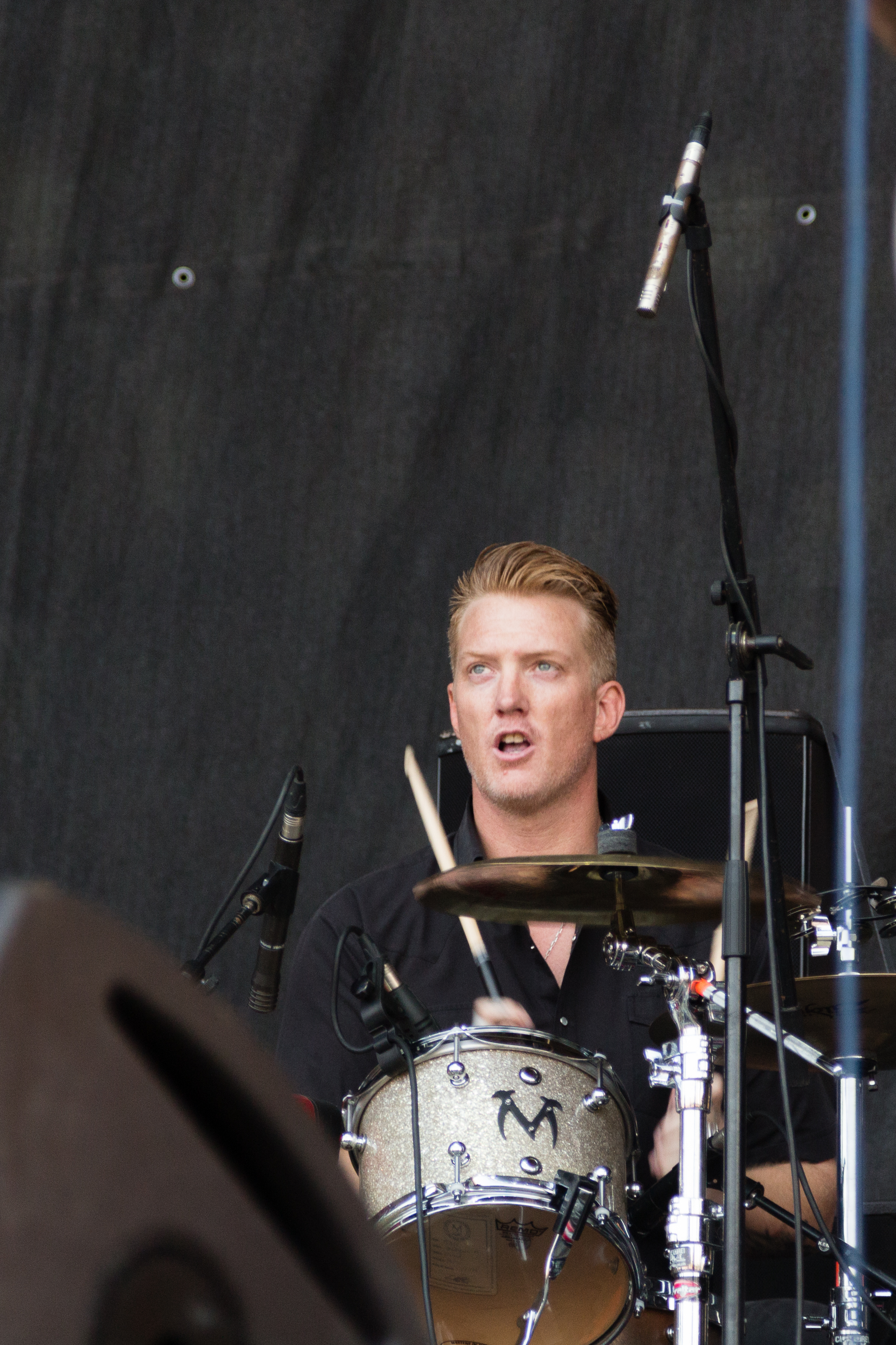 Josh Homme from the Eagles of Death Metal at the Nova Rock 2015